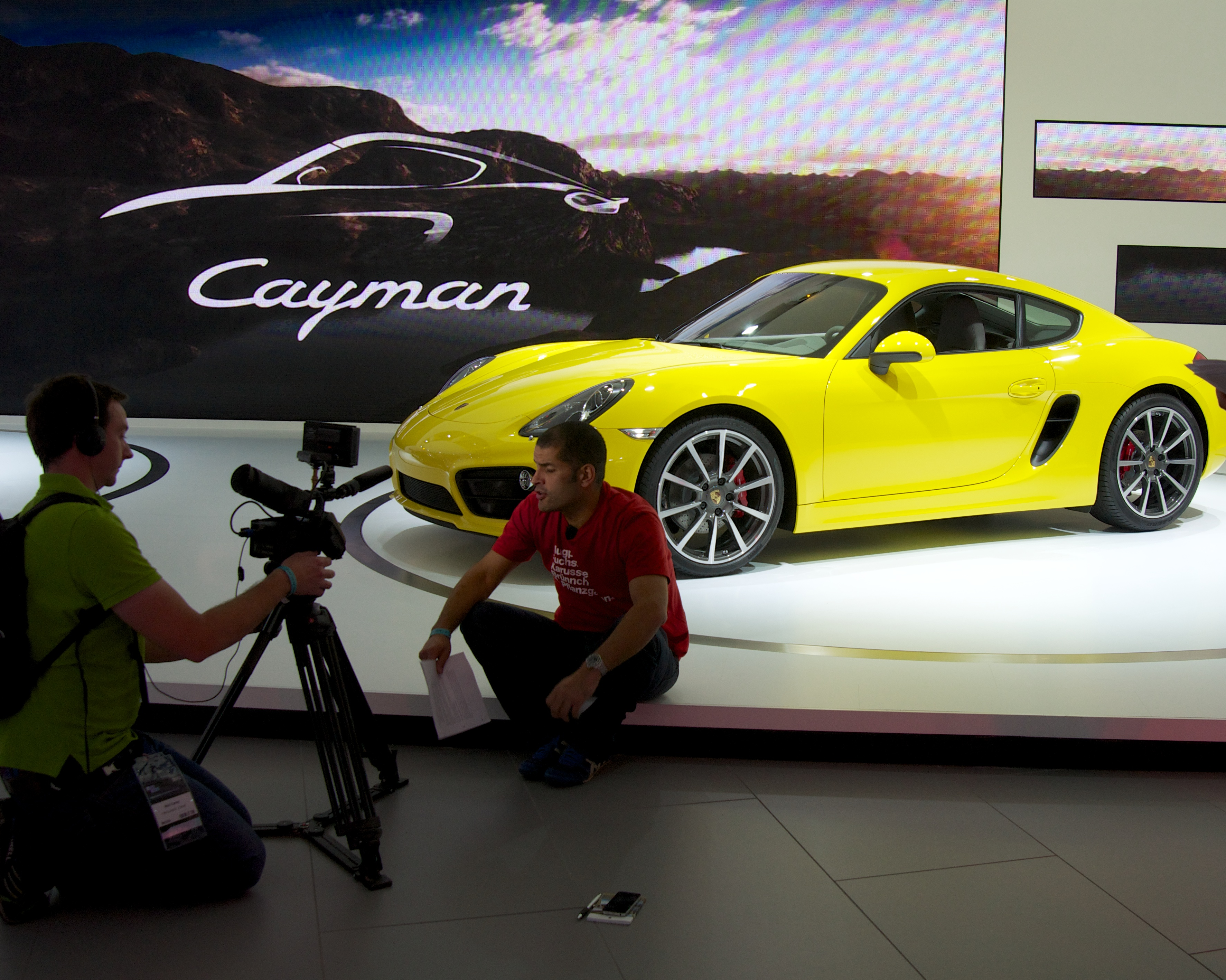 Seen at the 2012 Los Angeles Auto Show. Press day - Wednesday, November 28th. If you use one of my photos, please be so kind as to attribute me and link back to the photo's page. THANK YOU!